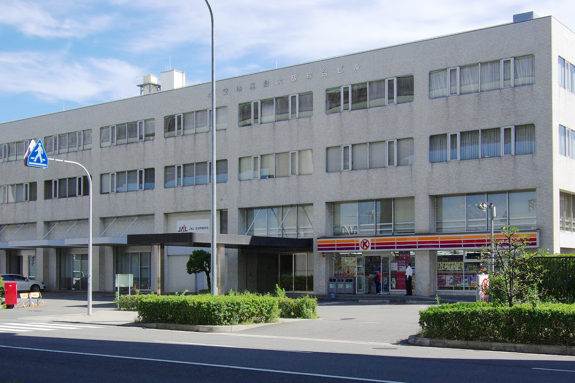 Photograph of Kuko-Shisetsu Osaka Sogo Building, which houses Osaka headquarters of JAL Express (JEX), in the vicinity of Osaka International Airport, Ikeda, Osaka Prefecture, Japan. The first floor includes a Circle K convenience store. The photograph was taken under the elevated Hanshin Expressway #11 line. The photographer used SILKYPIX Developer Studio 3.0 to adjust the color tone.